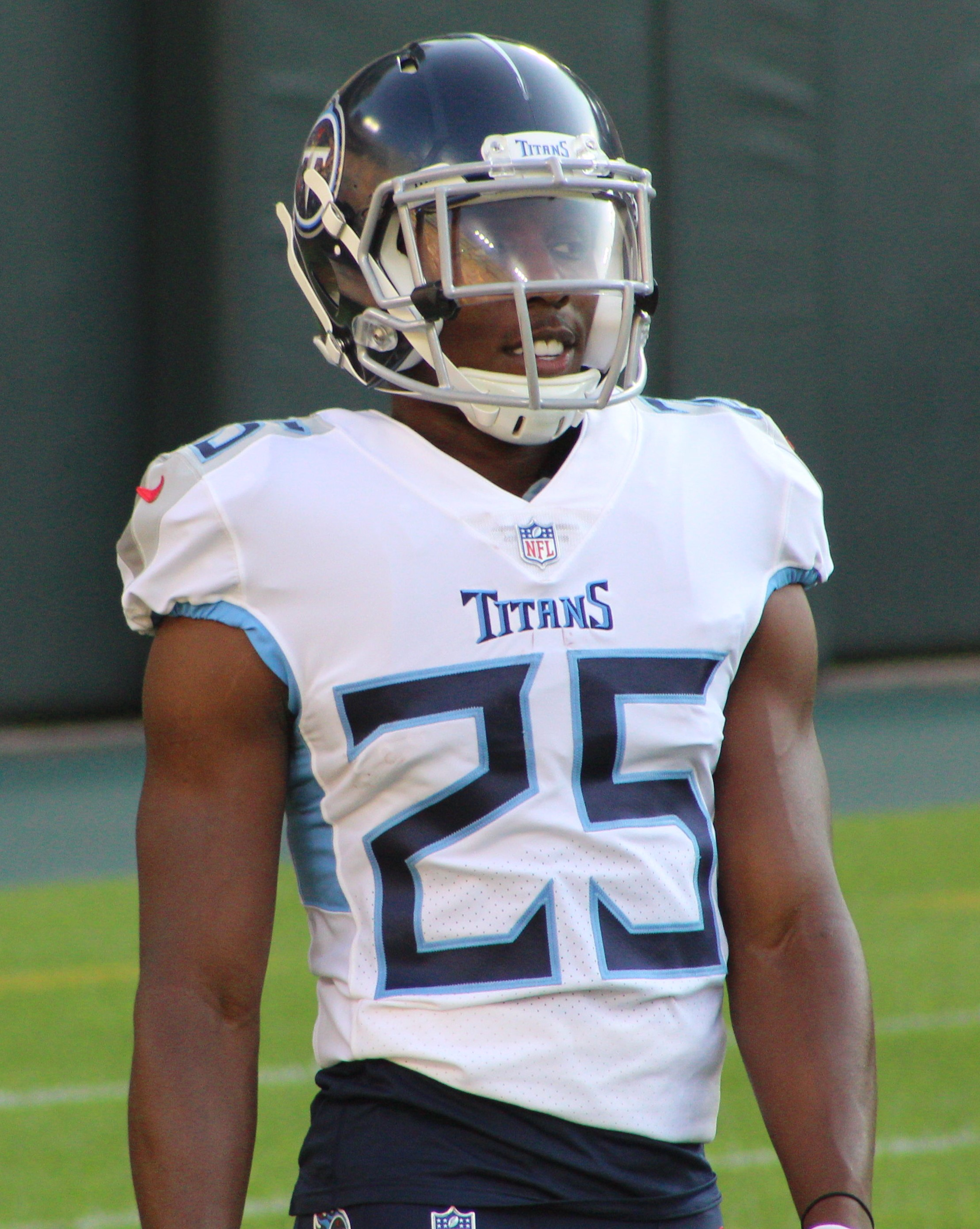 Adoree’ Jackson, Tennessee Titans at Green Bay Packers (Preseason), August 9, 2018